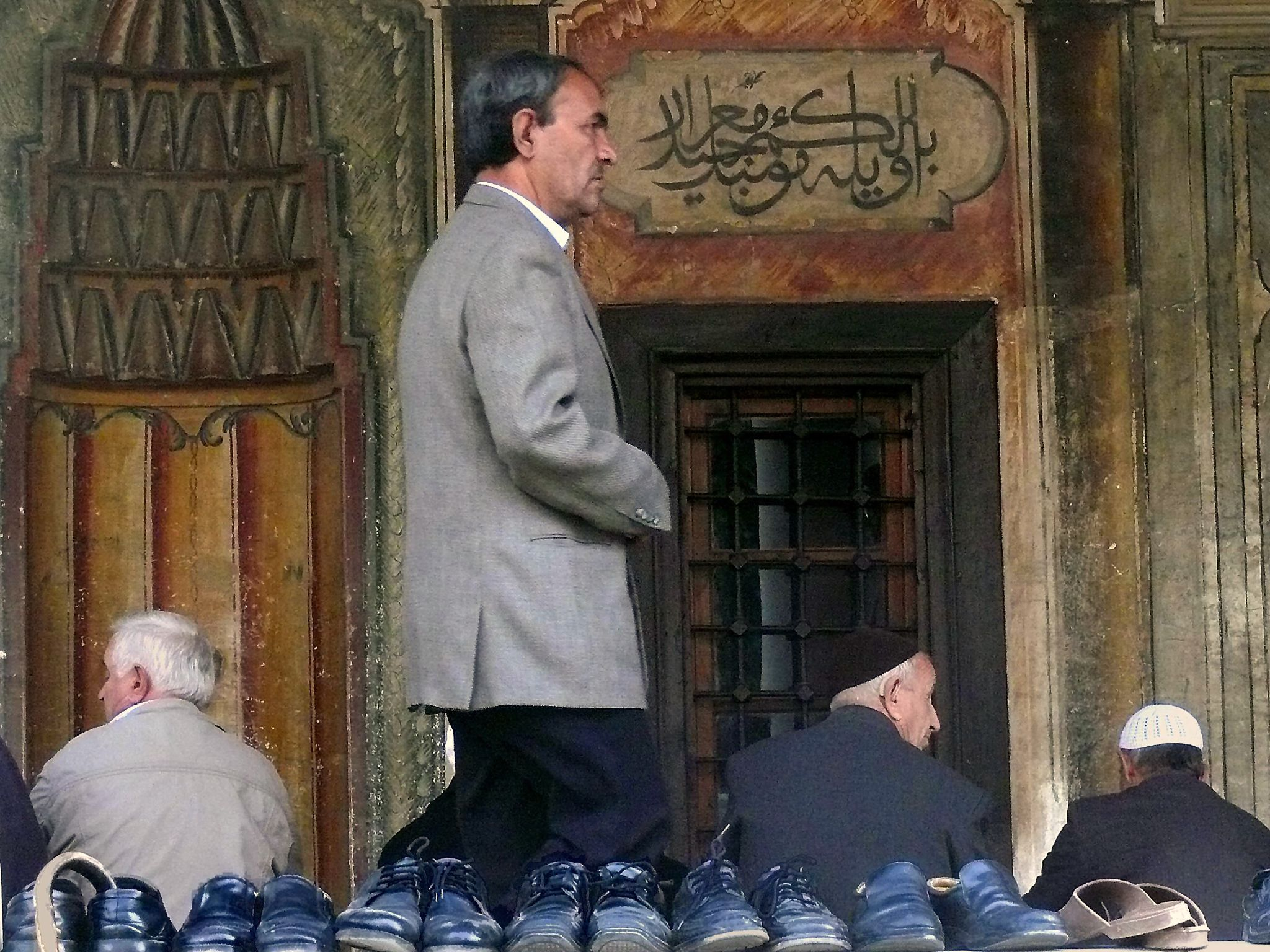 Over 30,000 eggs were used to manufacture the paint and glaze.